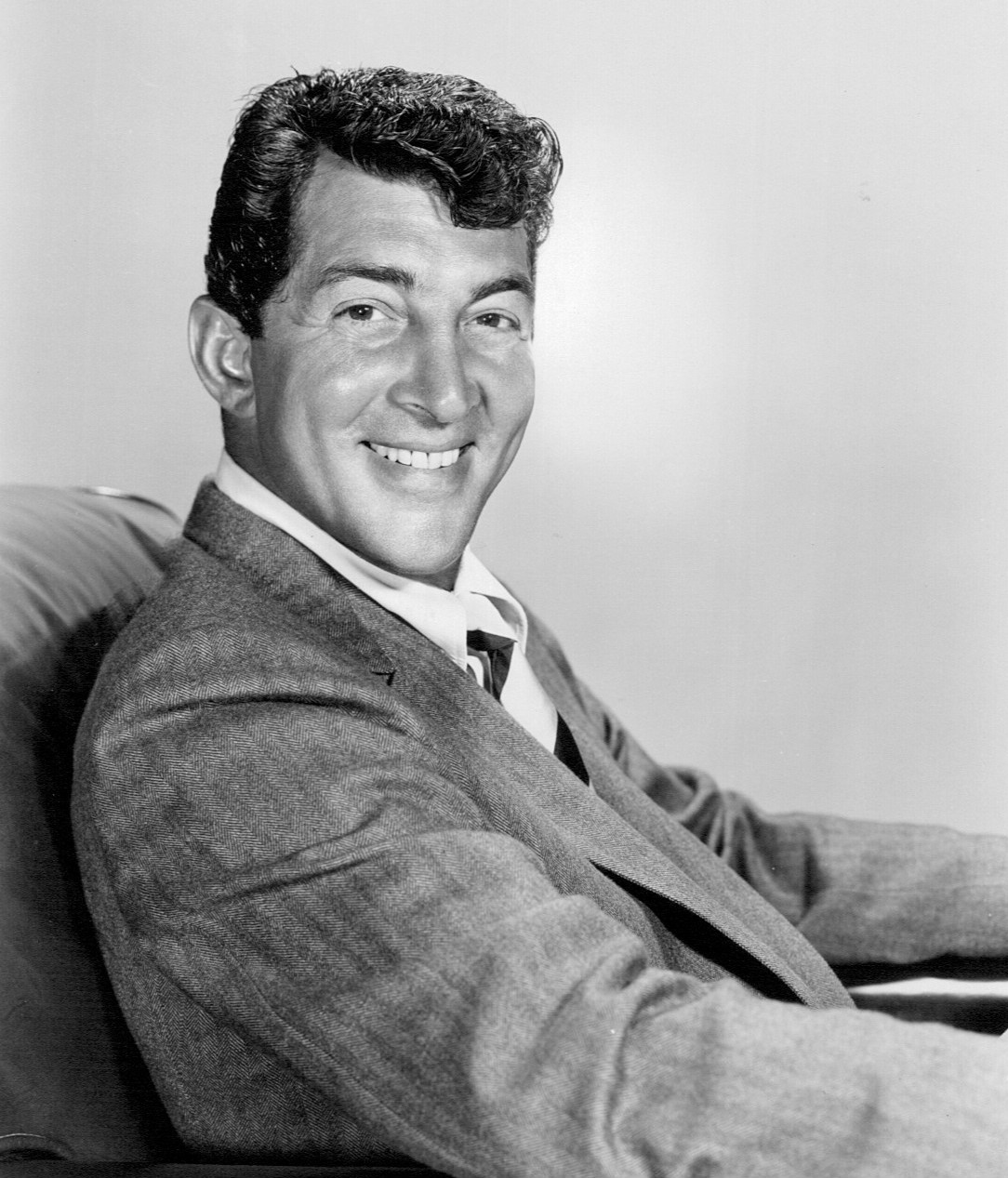 Photo of Dean Martin from 1959.